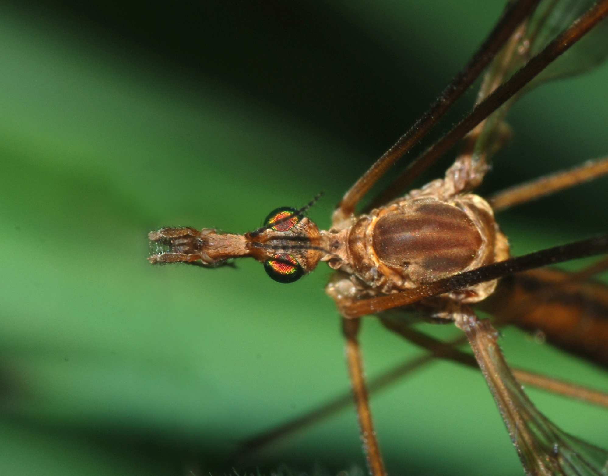 Detail of a female Crane-fly (Tipula cf. paludosa)